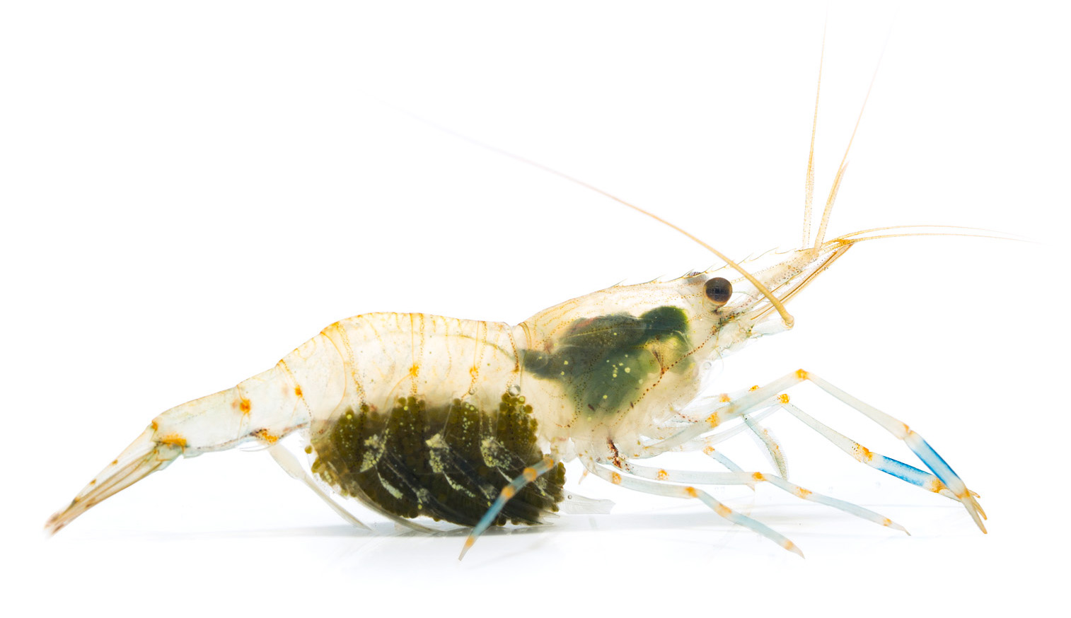 Female Rockpool prawn with eggs. Rockpool prawn is invasive species in Estonia. Caught in Hara bay, Estonia. Photographed in fish tank in studio.